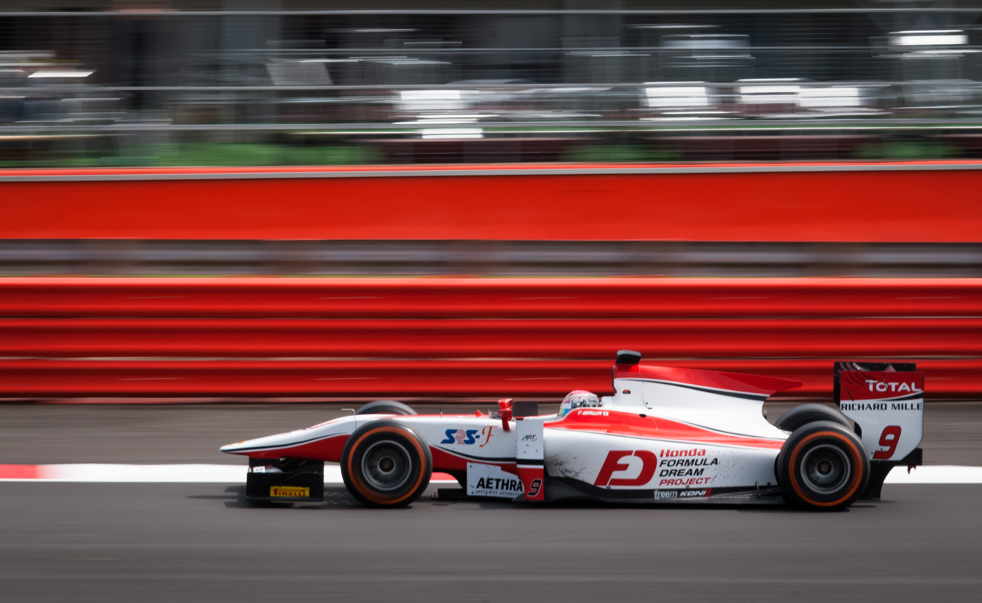 Takuya Izawa driving for ART Grand Prix at Silverstone. Round 5 of the 2014 GP2 Series Championship.